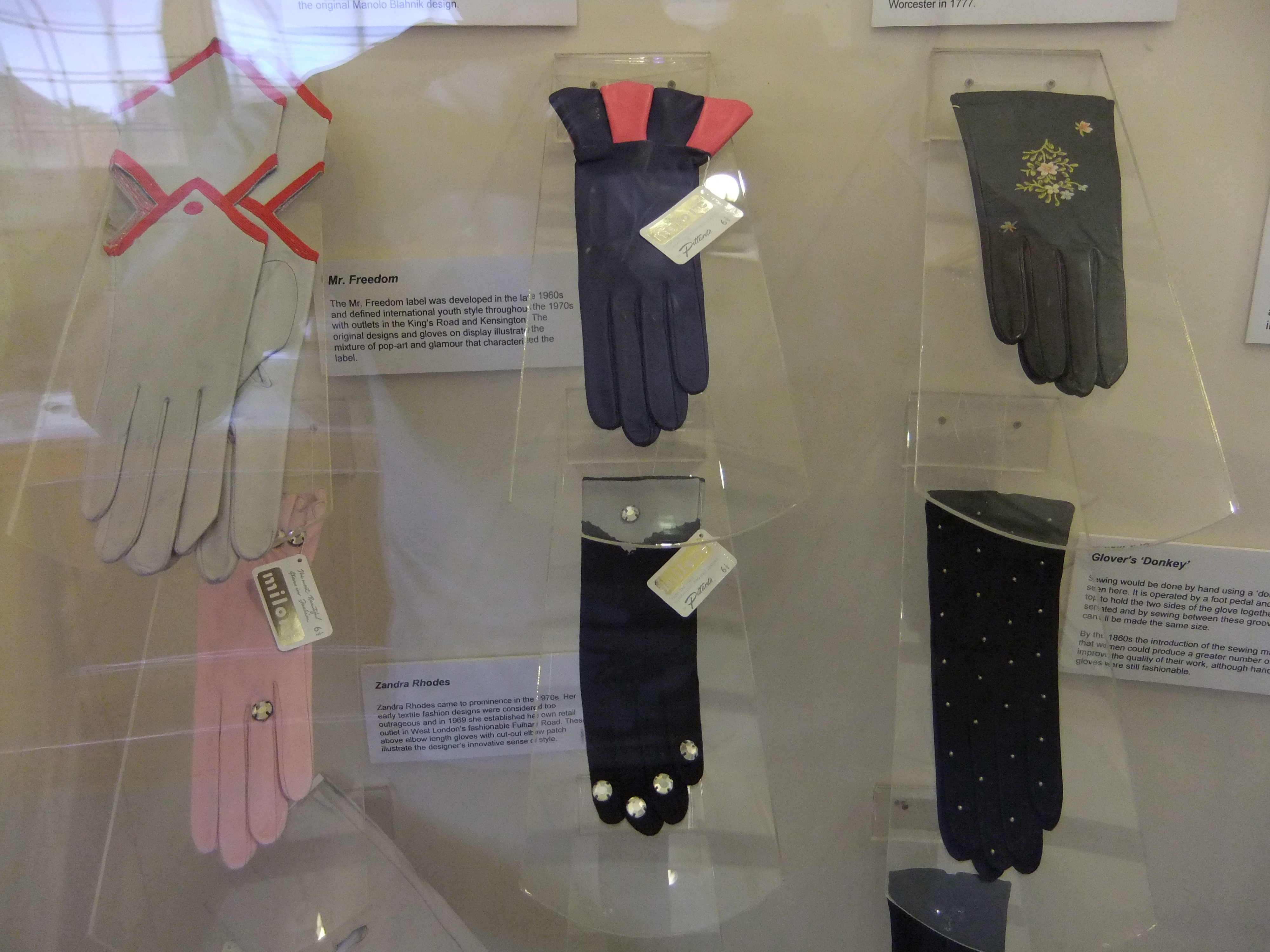 Collection of gloves at Worcester City Art Gallery & Museum, England.